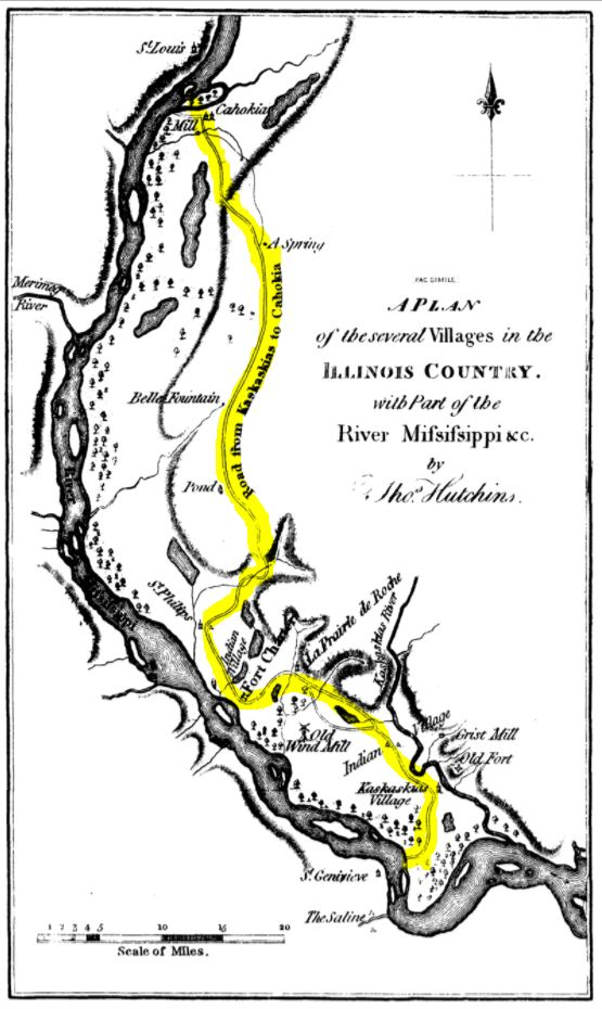 Yellow highlighted Map image of the "Road from Kaskaskias to Cahokia" from the 1778 Thomas Hutchins map "Several Villages in the Illinois Country with Part of the River Mississippi &c." (facsimile) by . Printed in Parkman, Francis. The Conspiracy of Pontiac and the Indian War after the Conquest of Canada, Vol. I, 1851. 6th ed., 1870. Project Gutenberg, 2012.